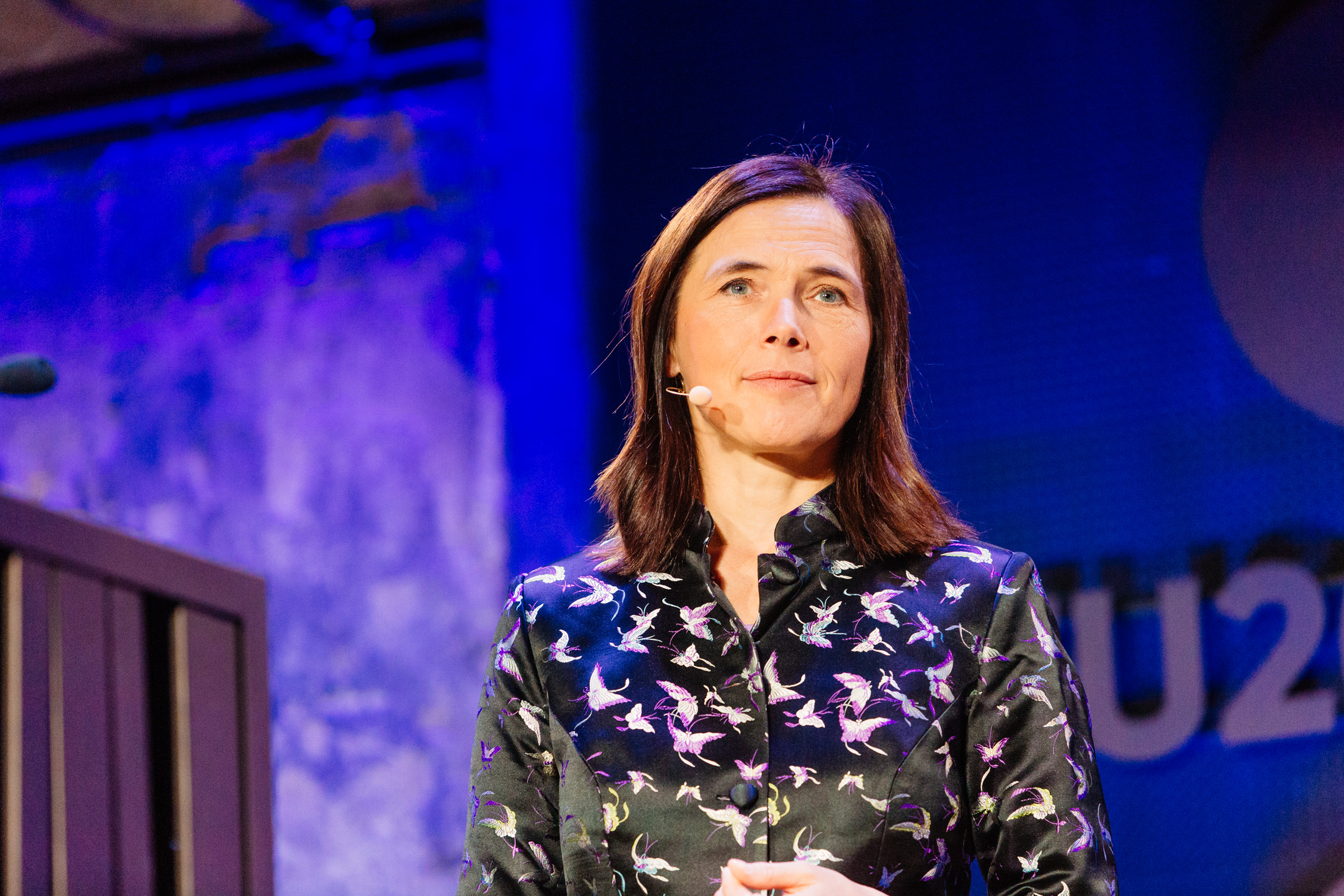 Maive Rute, Deputy Director-General, European Commission's Joint Research Centre